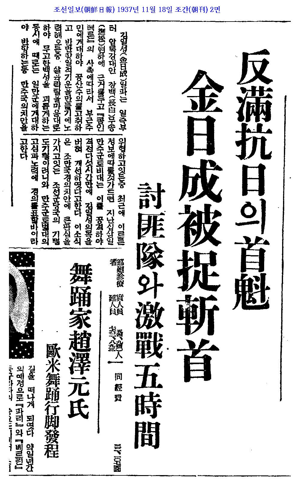 Chosun Ilbo article reporting that Kim Il Sung, who attacked Pochonbo village on June 4, 1937, had been killed on November 13, 1937.